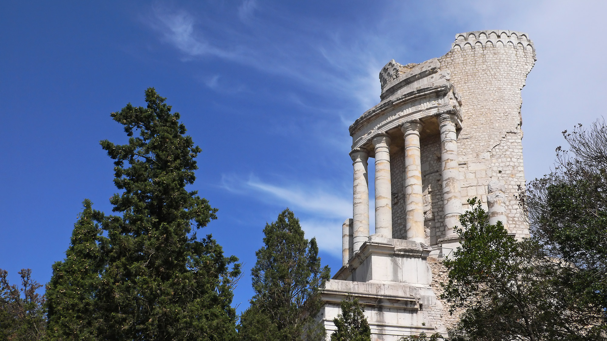 The Tropaeum Alpium at La Turbie (Alpes-Maritimes, France)